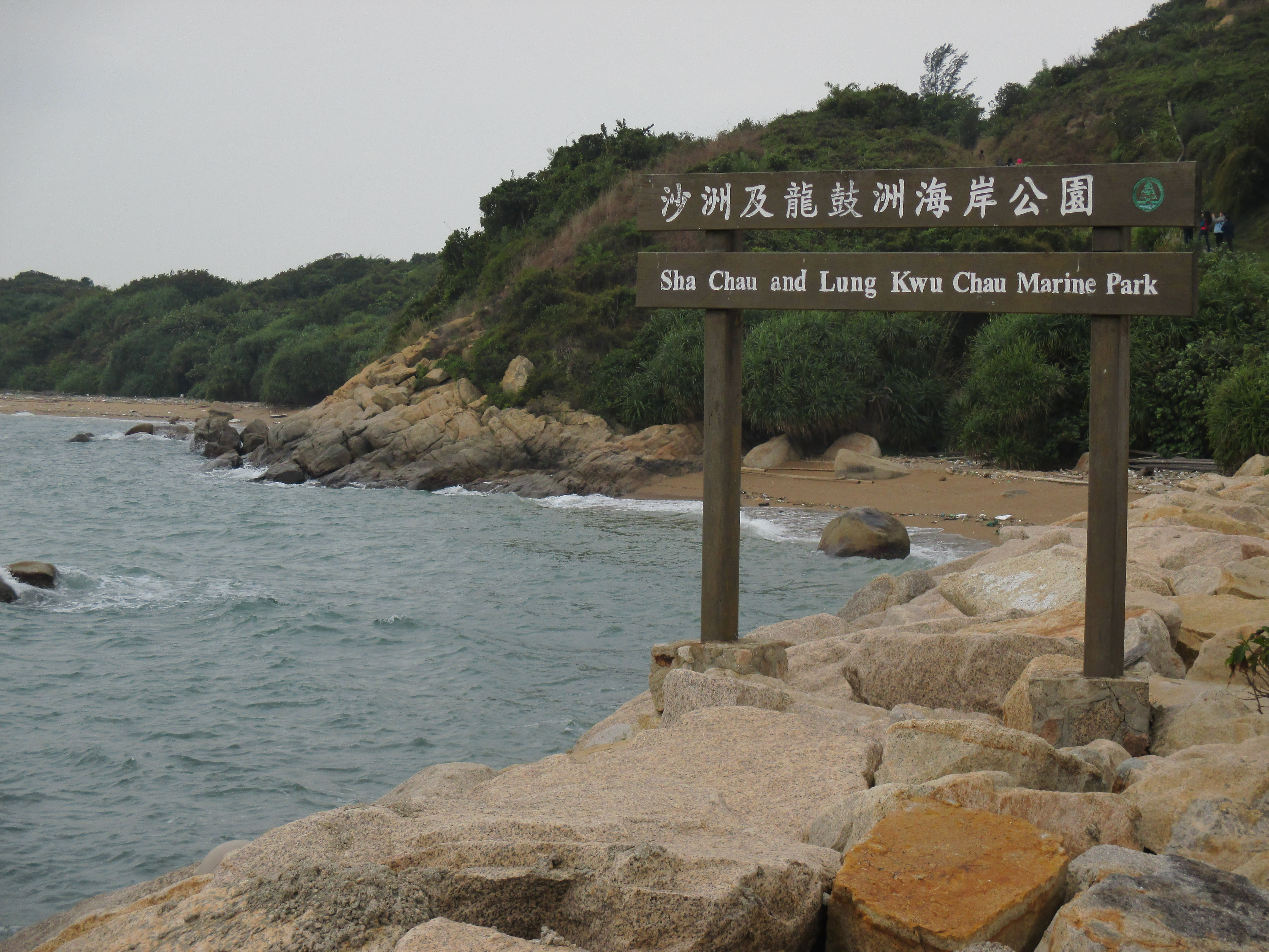 Tai Sha Chau